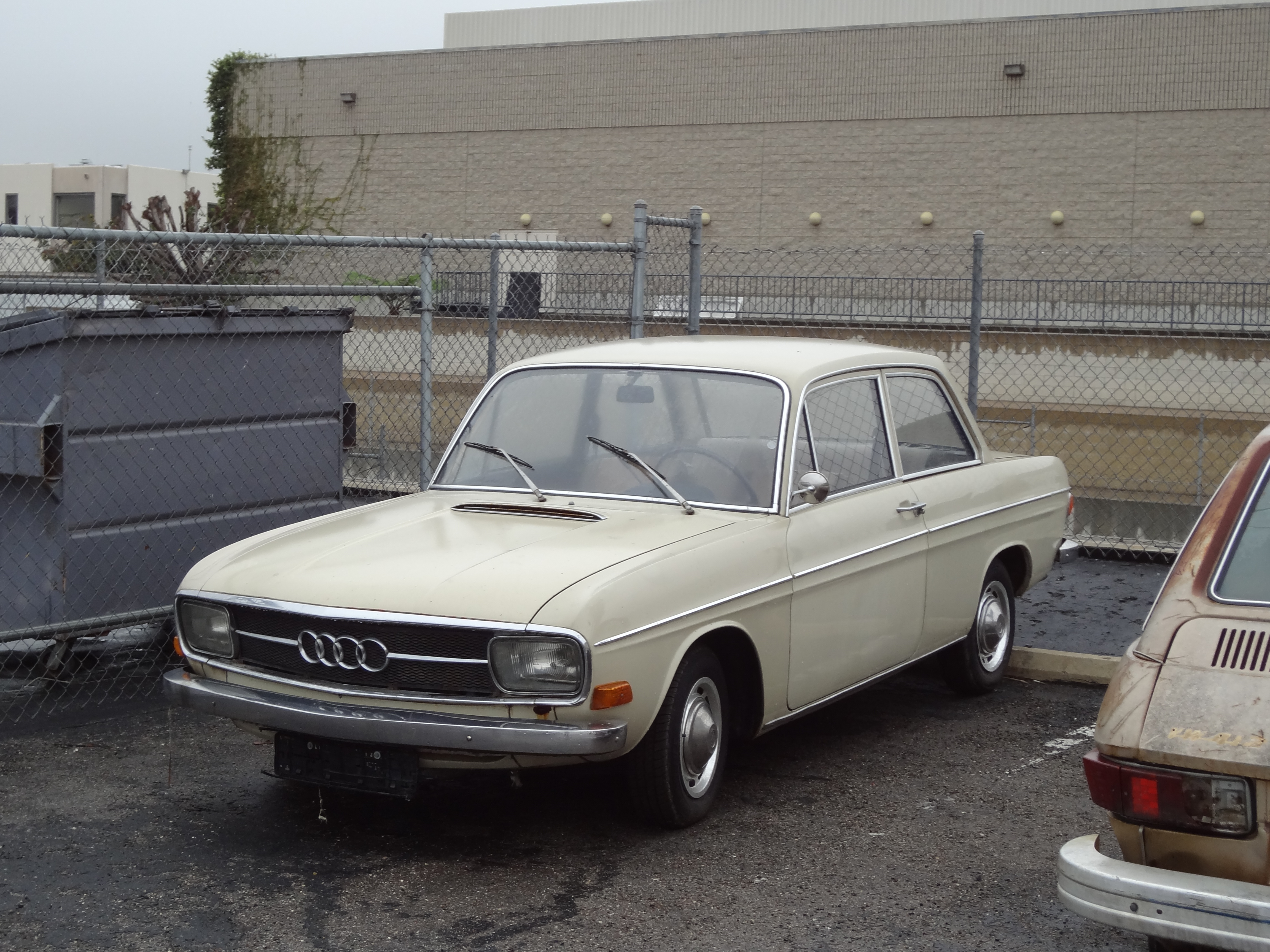 Audi F103 2 Door Front